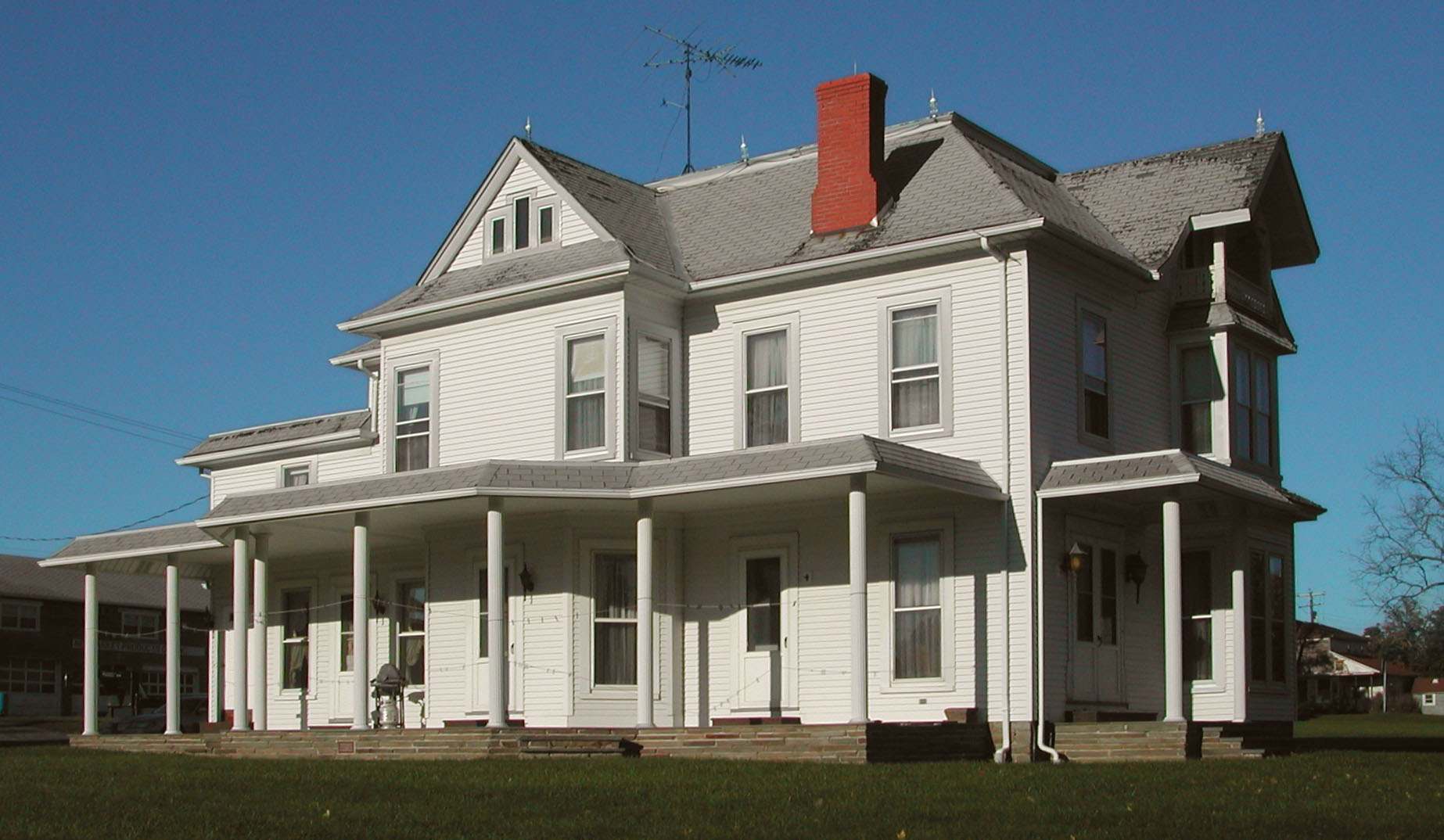 The home of Francis Marion McDowell in Wayne, NY, USA